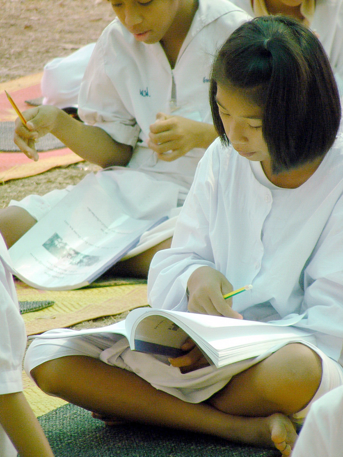 Buddhist nun in Ban Pha Cuk, Pha Chuk subdistrict, Mueang Uttaradit, Uttaradit Province, Thailand.